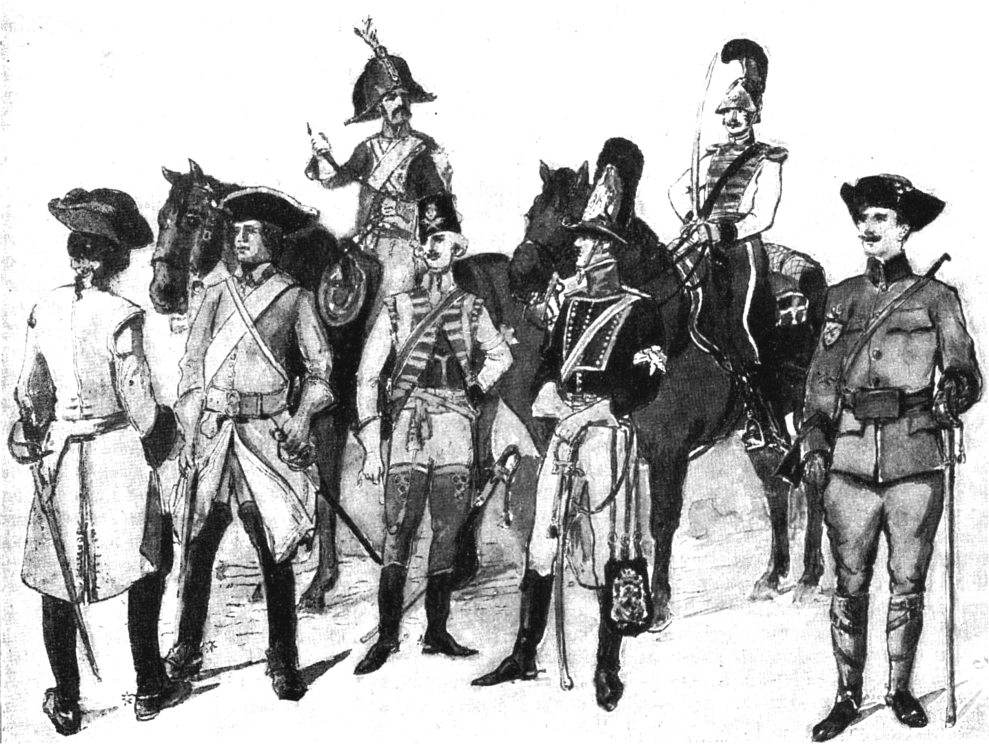 Swedish dragoon uniforms from different times